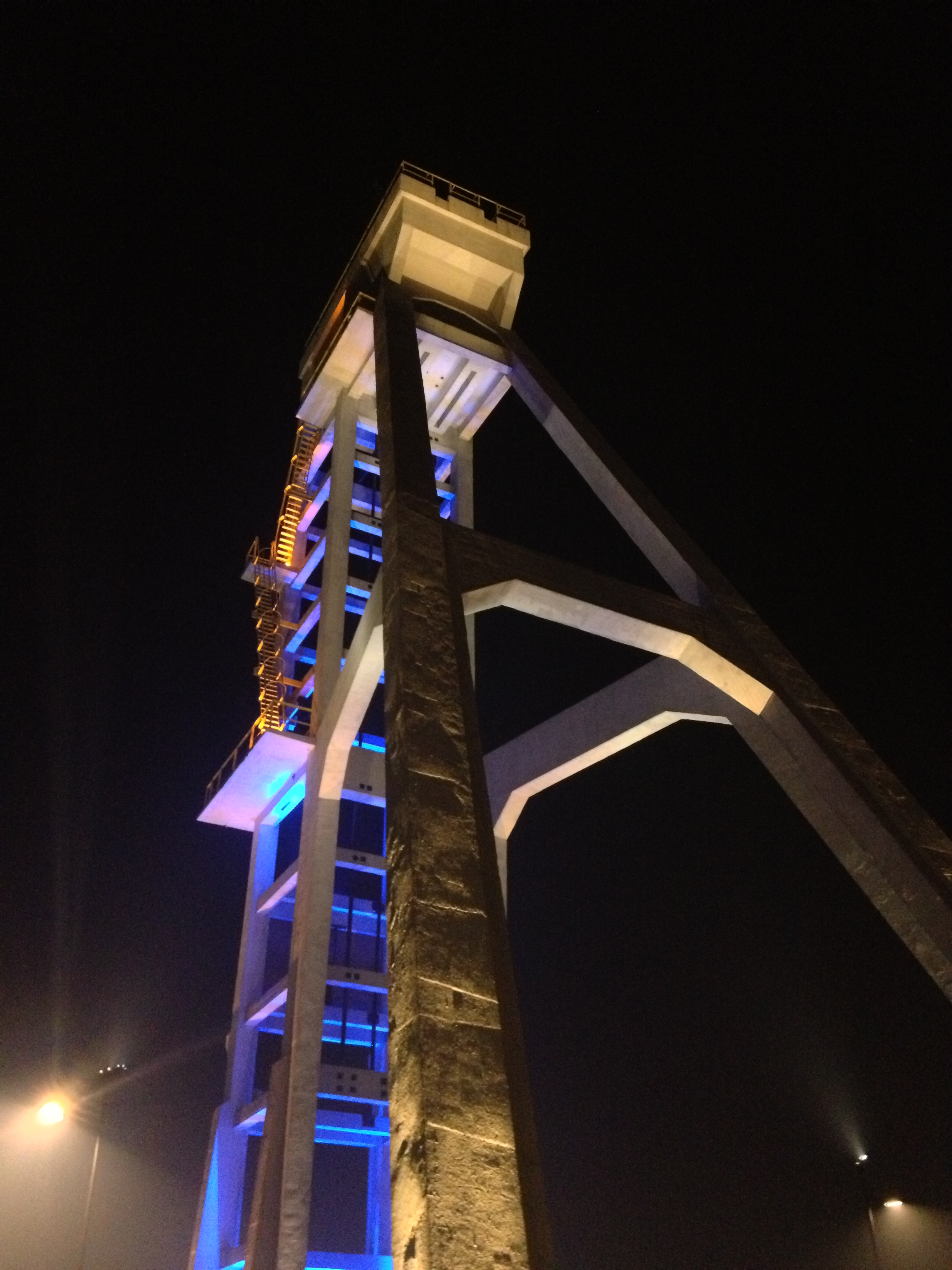 Prezydent coal mine in Chorzów (Upper Silesia), head frame tower in night